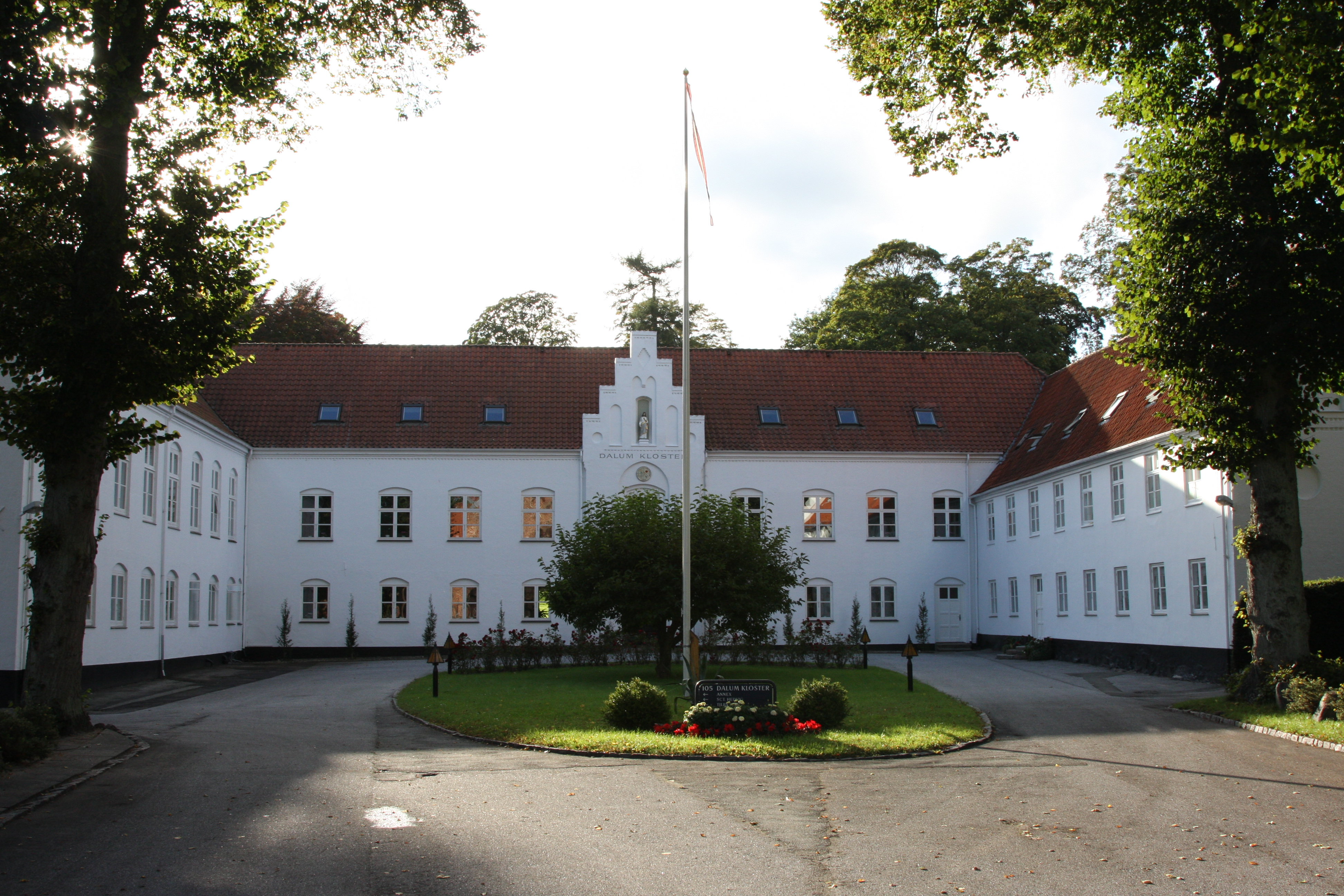 The main building of Dalum Kloster in Odense, Denmark.